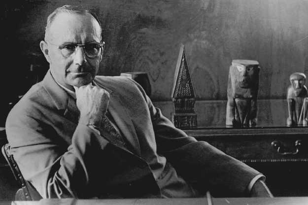 Delmas Henry Nucker (High Commissioner of the Trust Territory of the Pacific Islands) with Palauan art work, 1960.